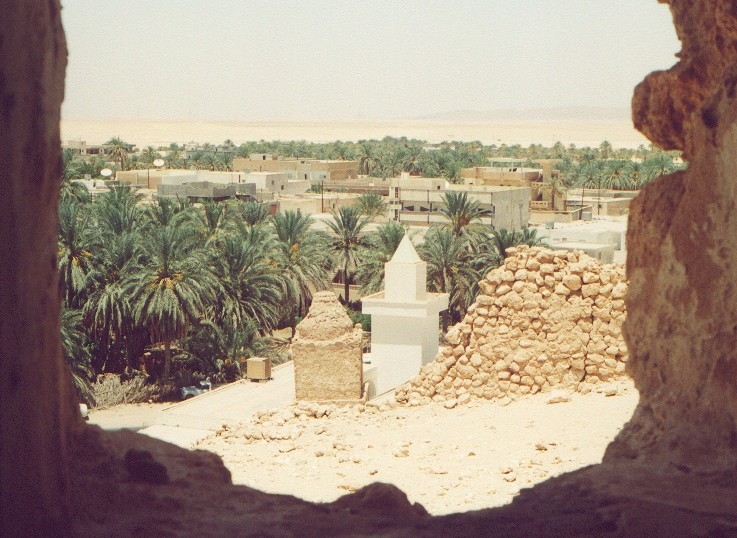 Houn (Libya) - A view of Waddan village from the ksar